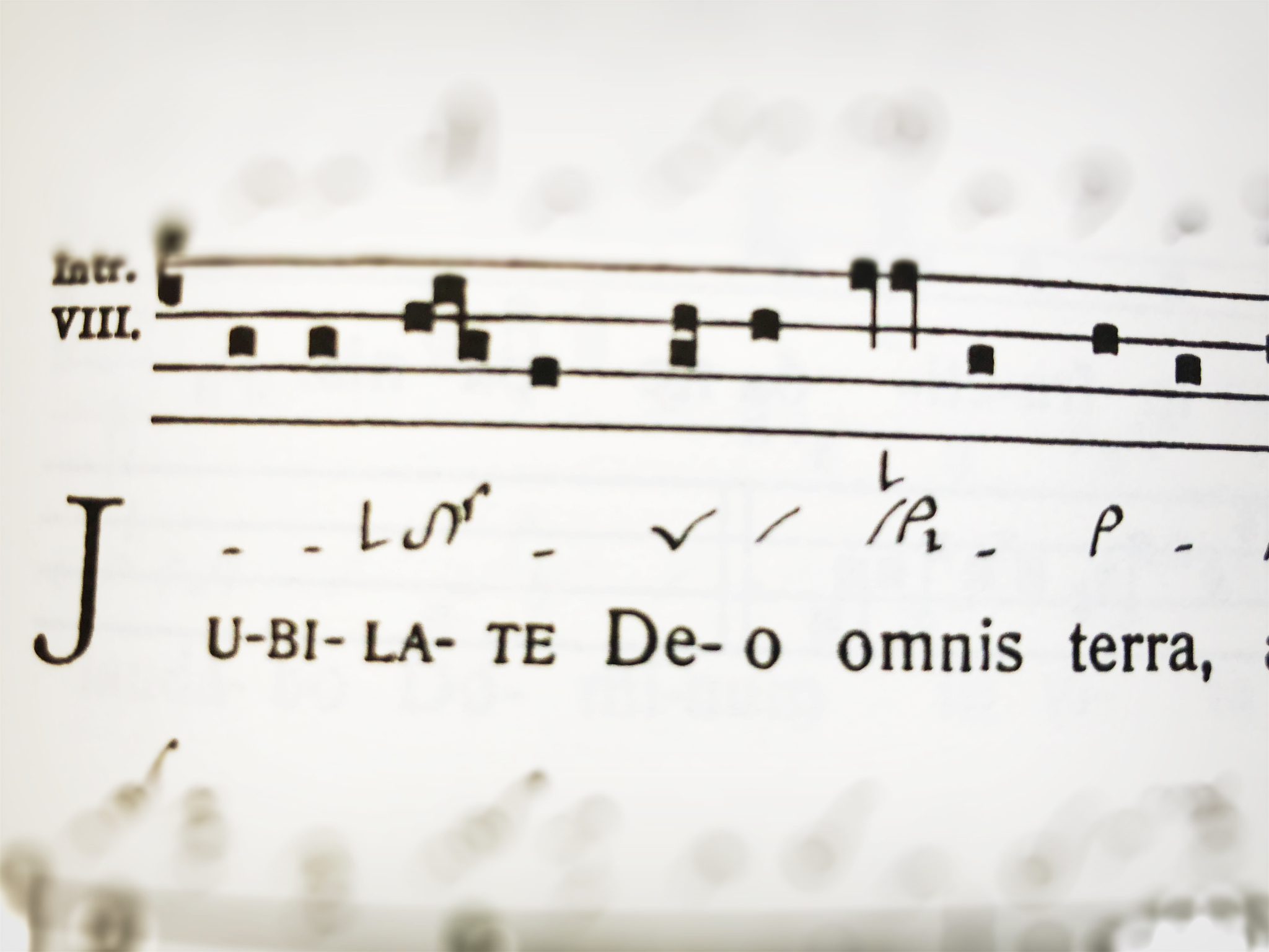 Incipit of the Introitus Jubilate